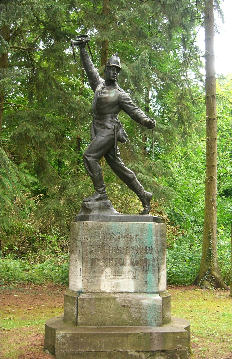 War memorial 1914/18 in Ludwigslust sculpted by Hugo Berwald